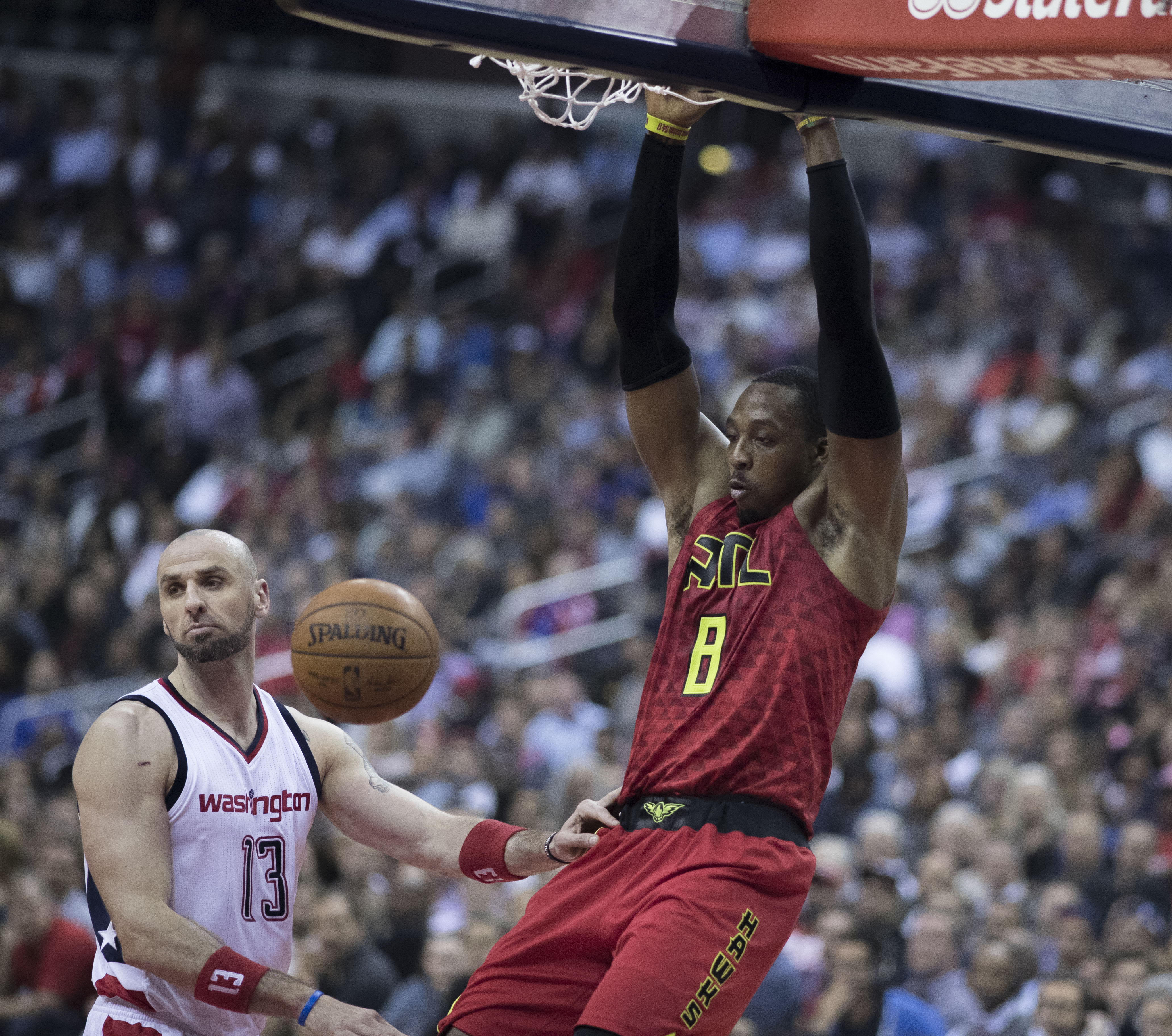 Hawks at Wizards 4/26/17